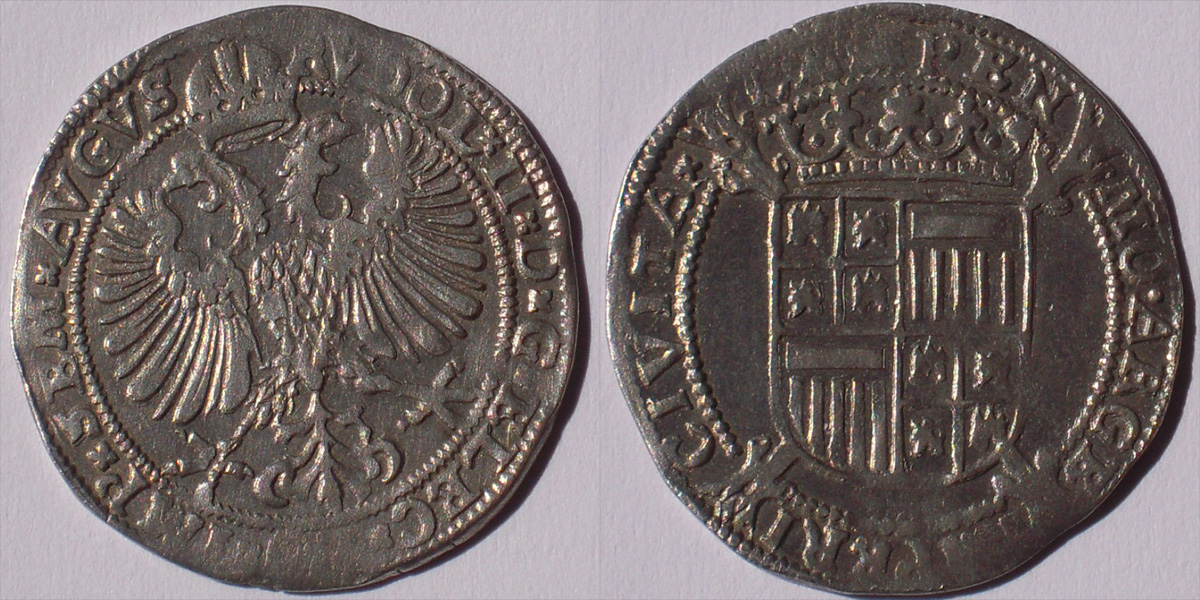 Eagle shilling of 6 stivers, silver, struck at Kampen around 1595.